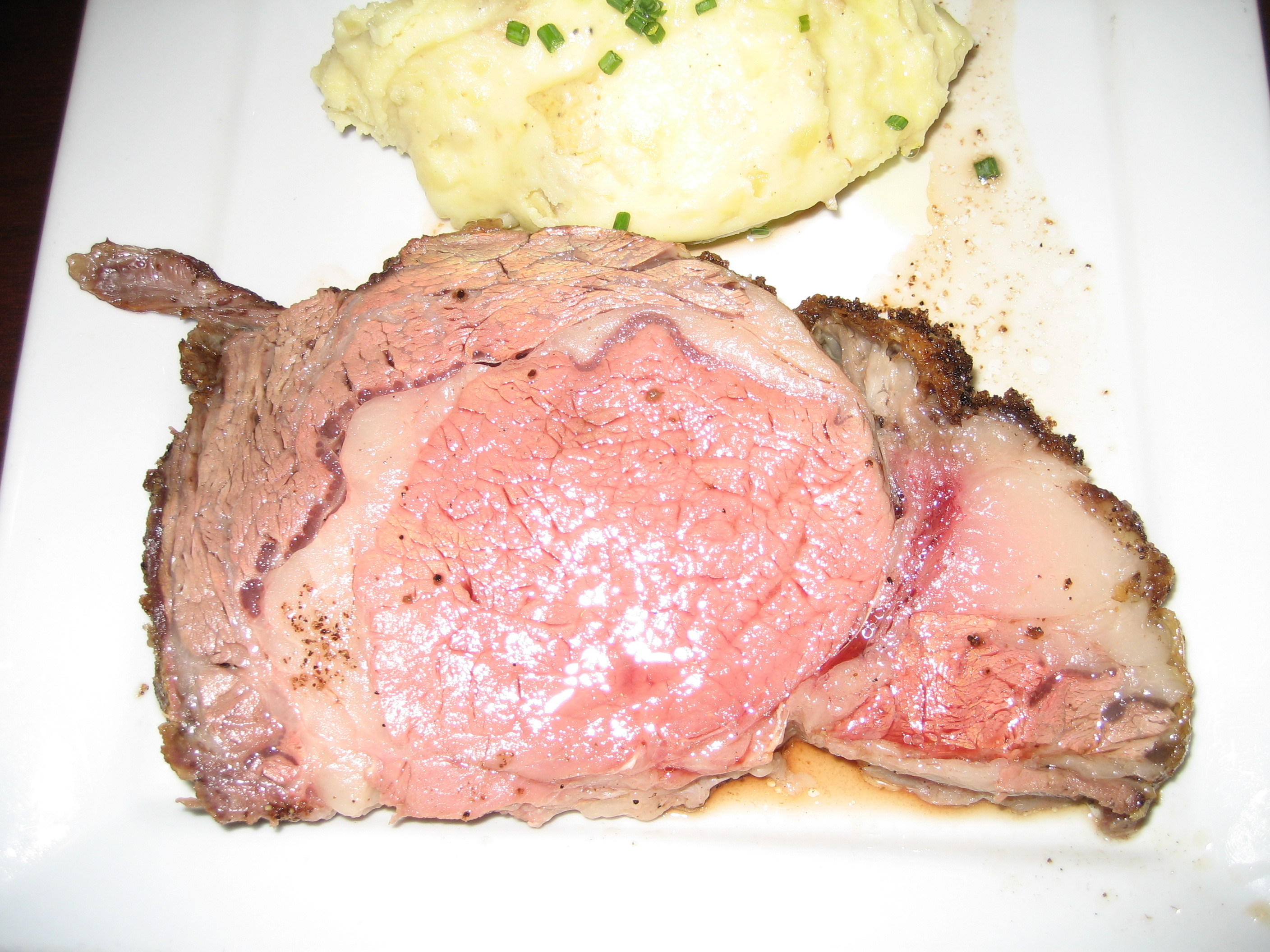 Roast beef in August 2011 at Smoke Restaurant in Tulsa.